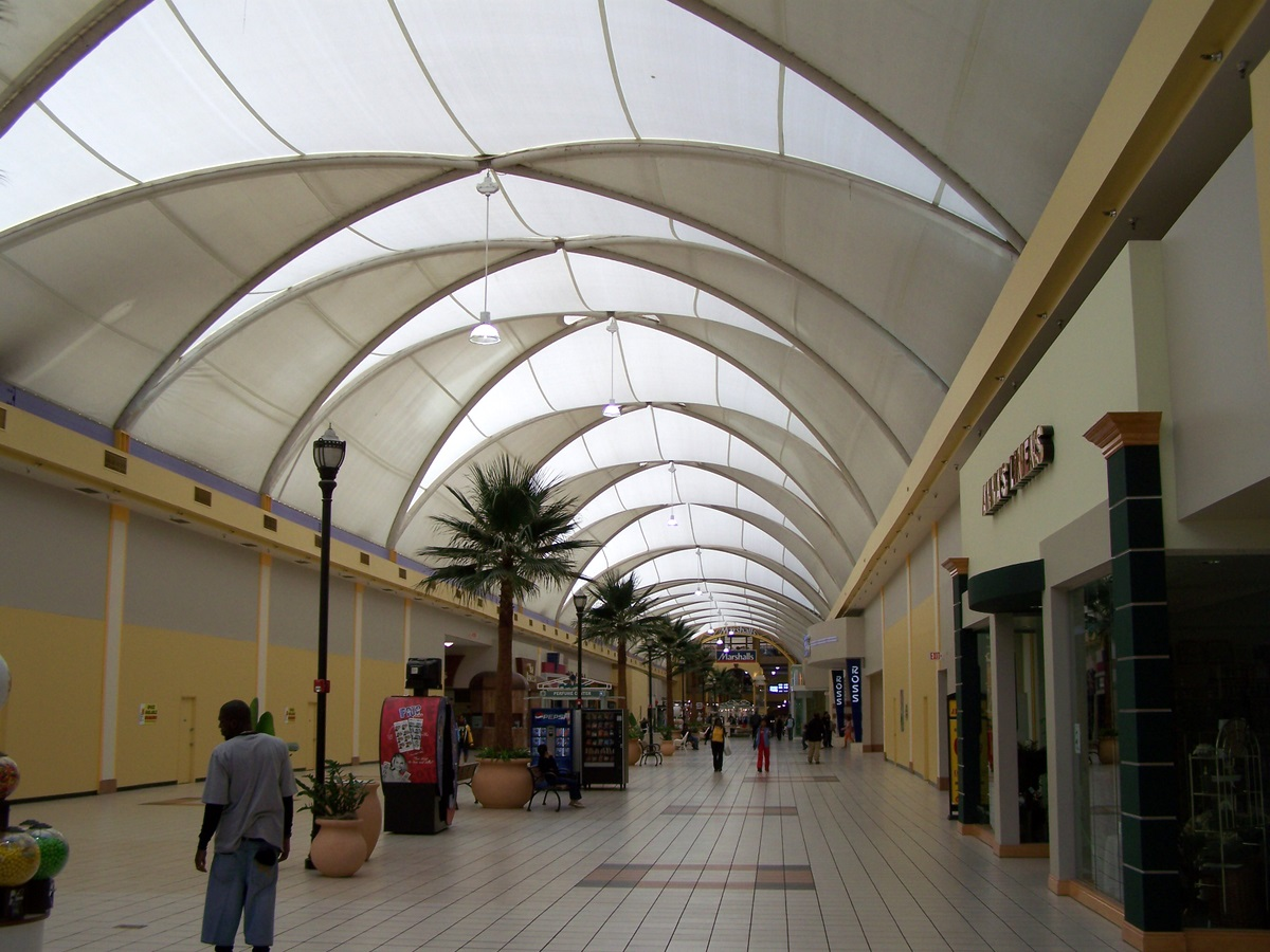 Inside of the Mall at 163rd Street in North Miami Beach, Florida.